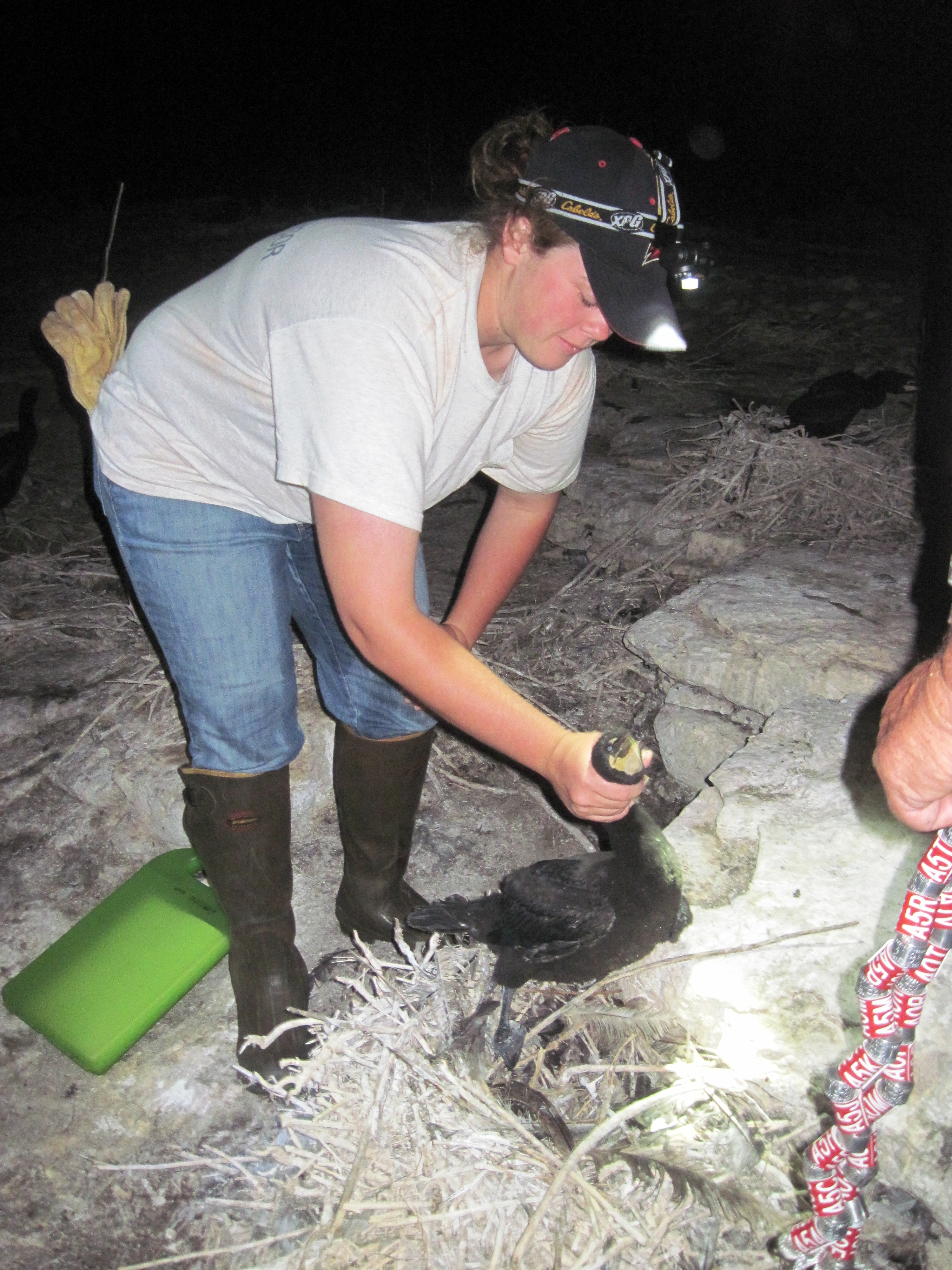 For those of you who didn't get the Refuge News, Mandy and I went to Door County, Wi a few weeks ago to help researchers band some 1000 double-crested cormorant chicks. Mandy here was the first to take hold of a sleepy chick. Everything was done at night so that the chicks would be sleeping and less aware of our presence. ~ Intern Karen